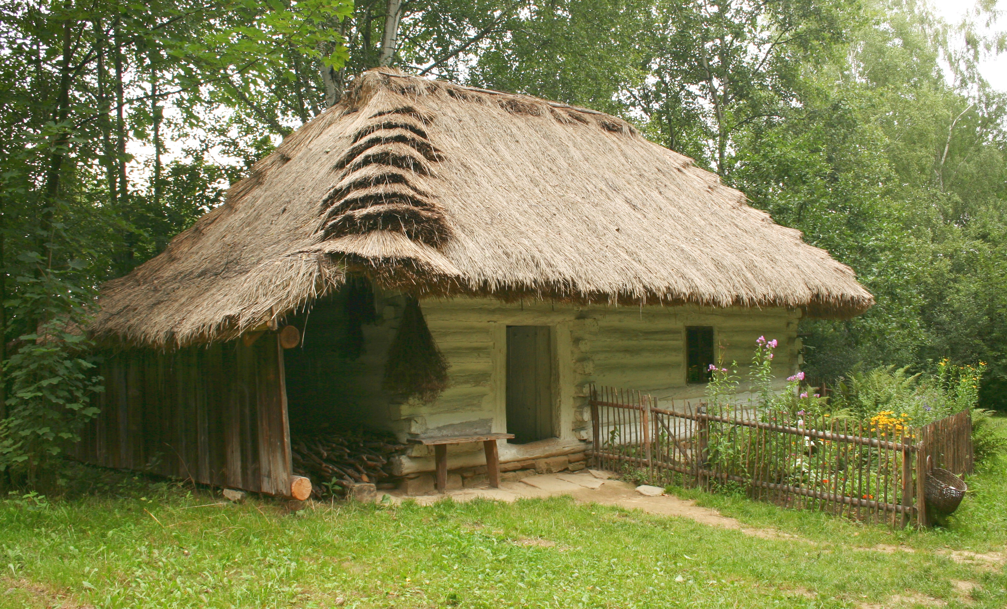 Skansen in Nowy Sącz, Poland